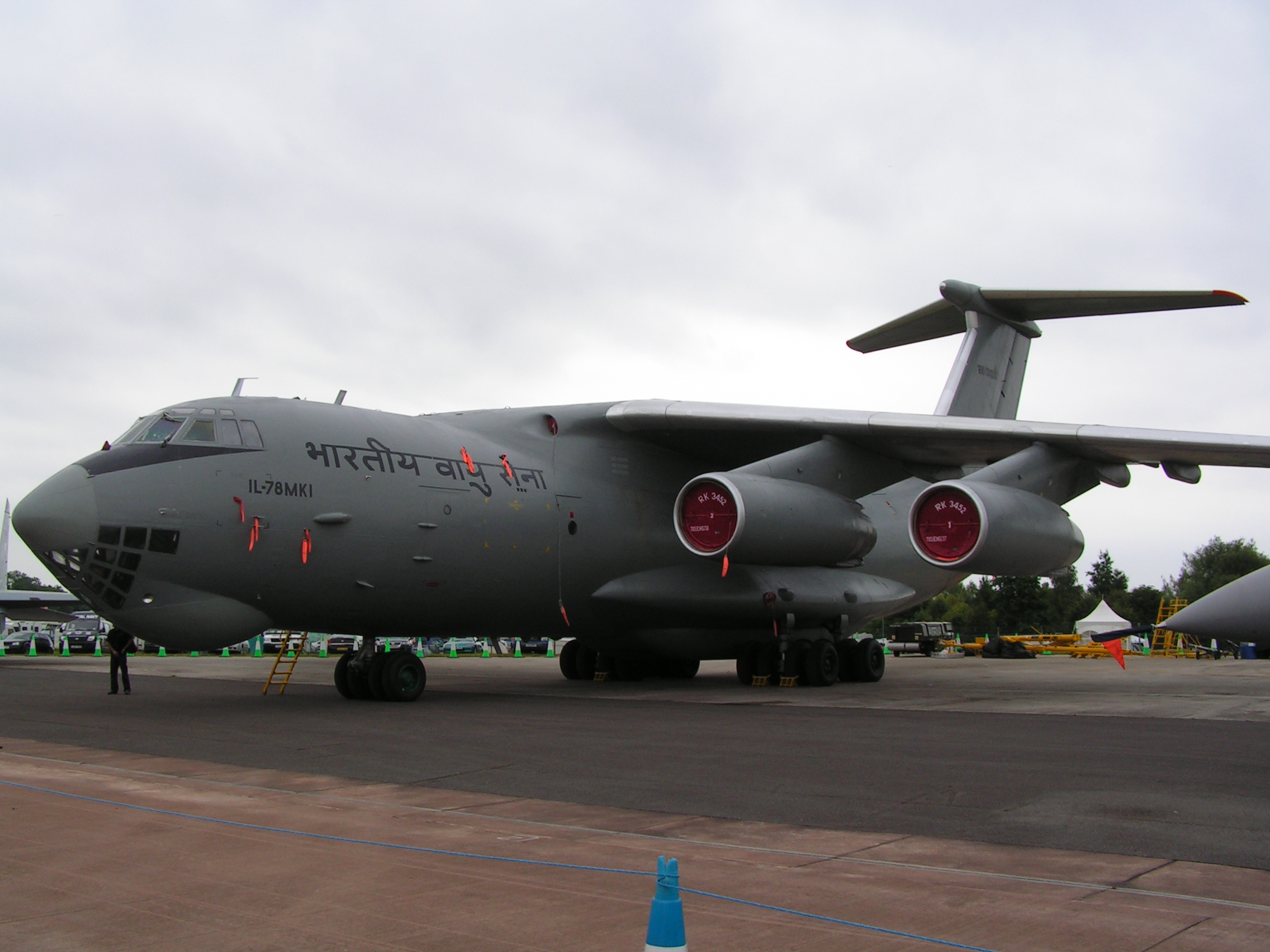 Ilyushin Il-78MKI at the Royal International Air Tattoo.